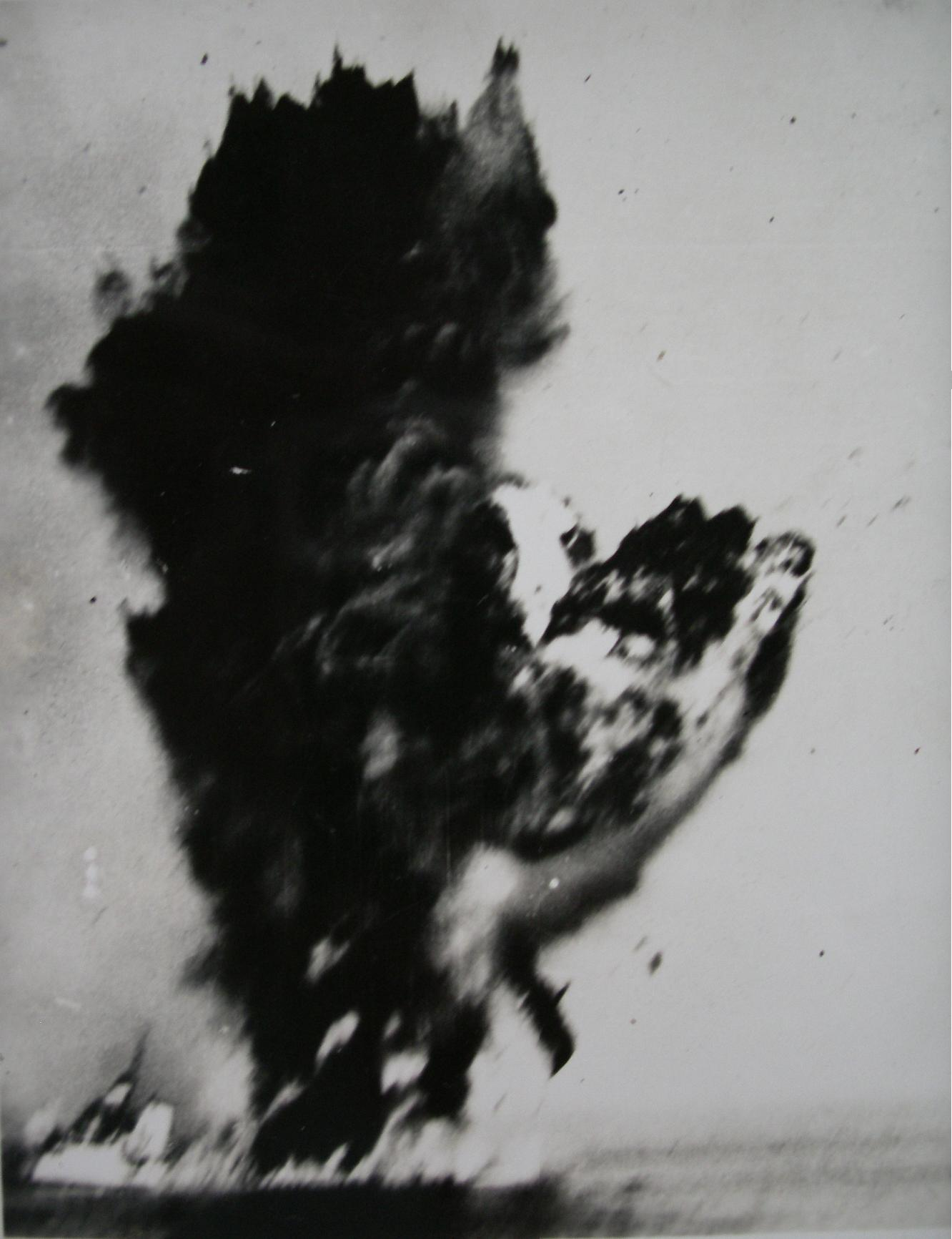 The Italian destroyer Artigliere is finished by torpedoes from HMS York at 9.05 in the morning of October 12th, 1940, after the battle of Cape Passero. The ship's stern ammunition magazines explode after the torpedo hit.